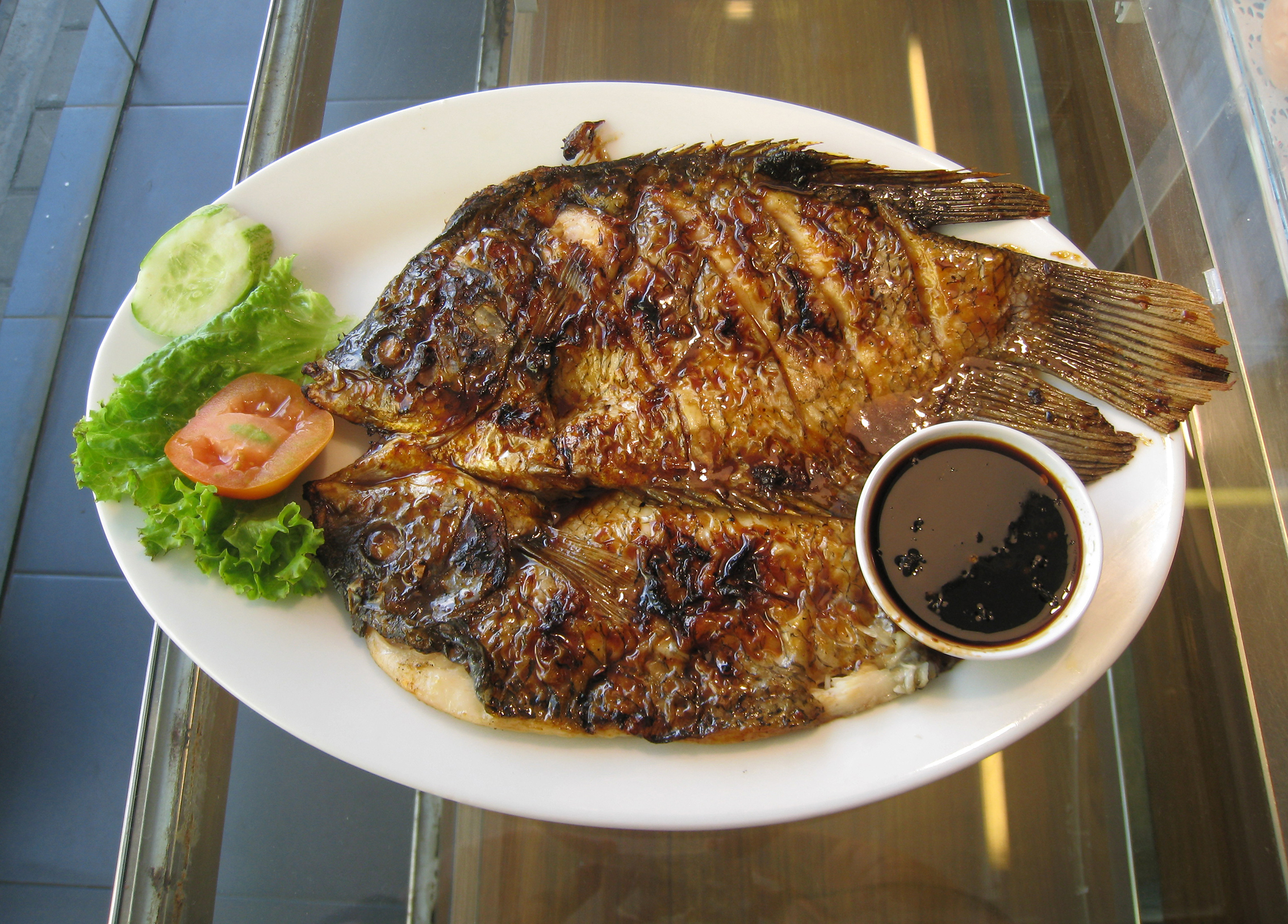 Gurame bakar kecap, barbecued gourami fish seasoned with sweet soy sauce. Popular Indonesian dish, served in D'Cost restaurant in Jakarta, Indonesia.